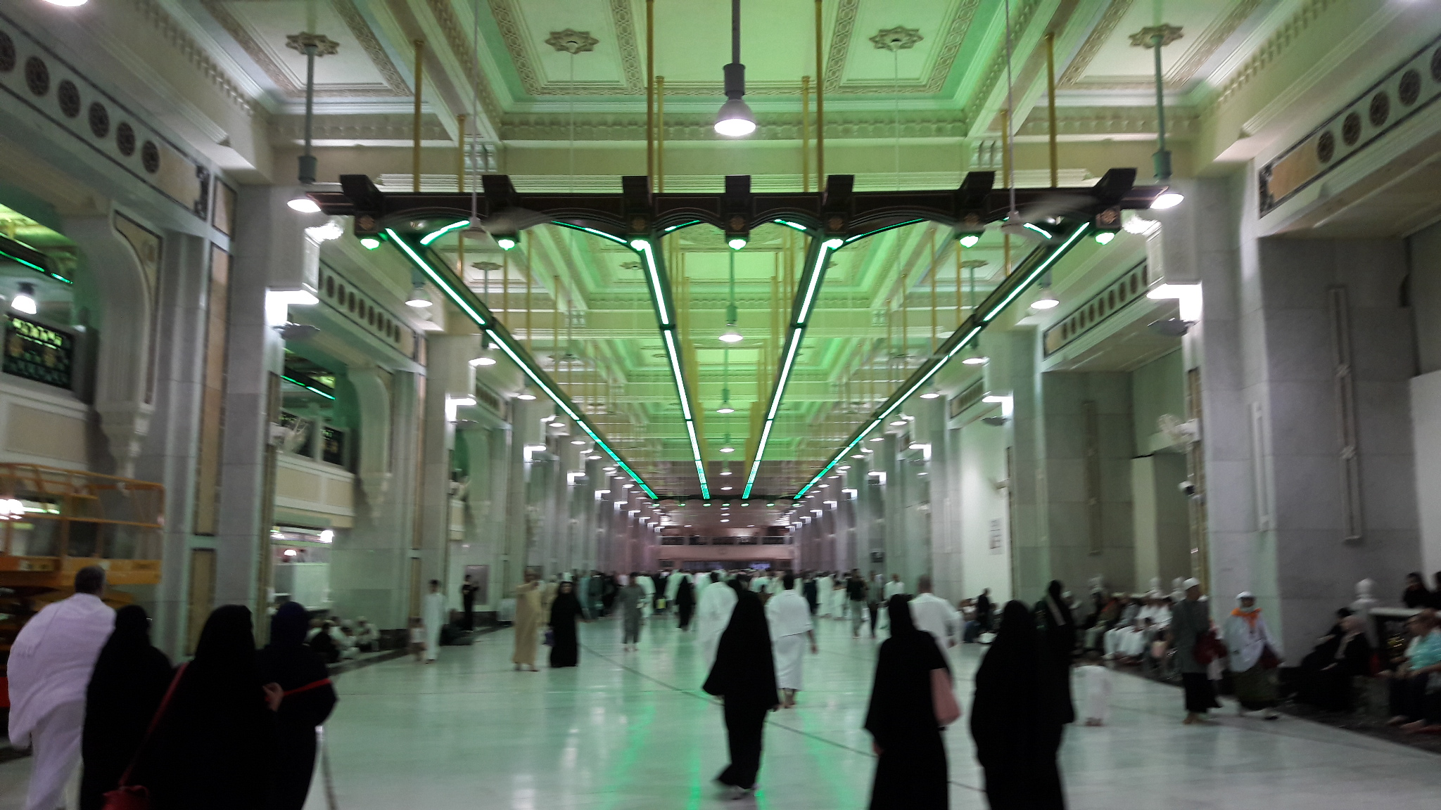 Masjid al-Ḥaram